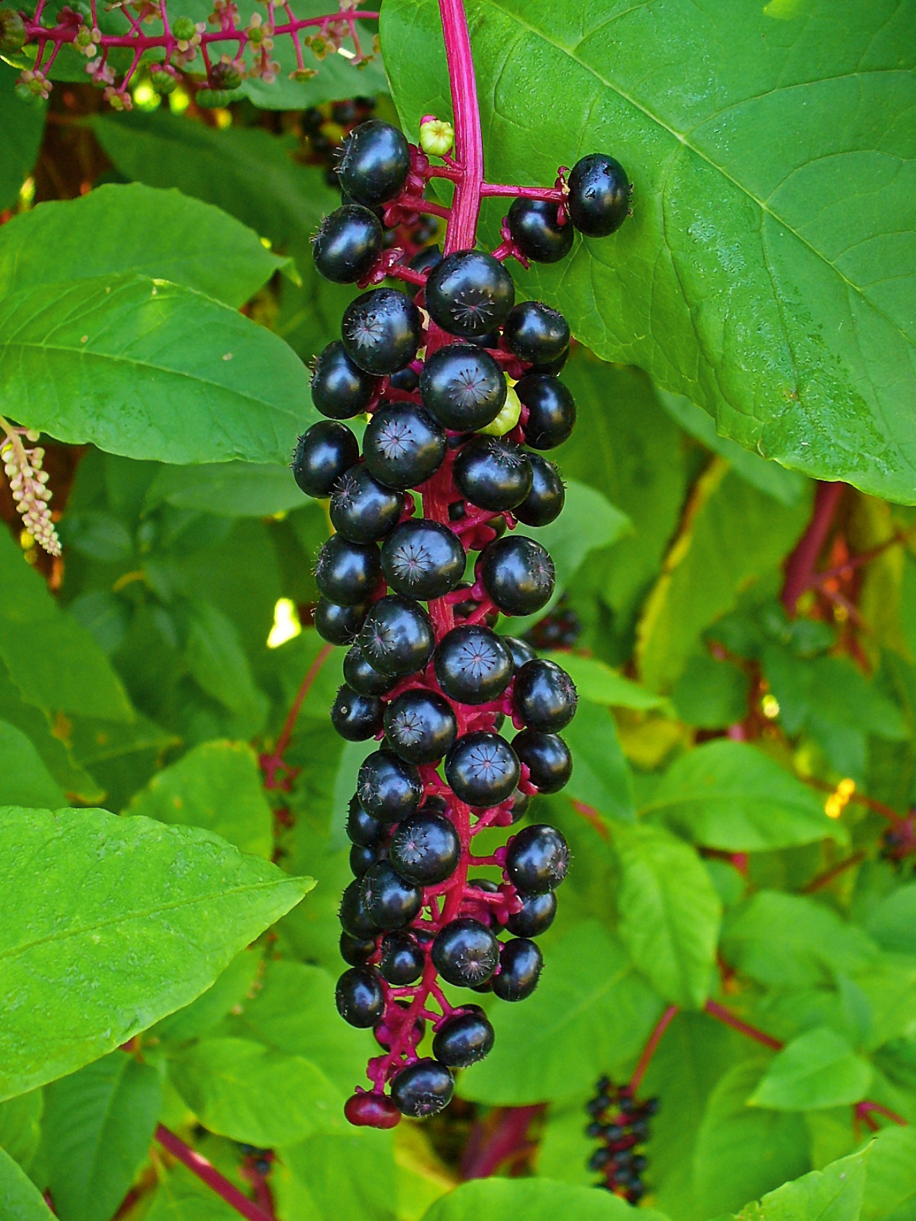 Phytolacca americana, Phytolaccaceae, American Pokeweed, American Nightshade, Cancer Jalap, Coakum, Garget, Inkberry, Pigeon Berry, Pocan Bush, Poke Root, Pokeweed, Redweed, Scoke, Red Ink Plant, infrutescence.